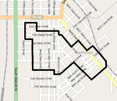 Map of a portion of Jefferson, Texas, highlighting the Historic district border and locations of contributing buildings. Background map from OpenStreetMap